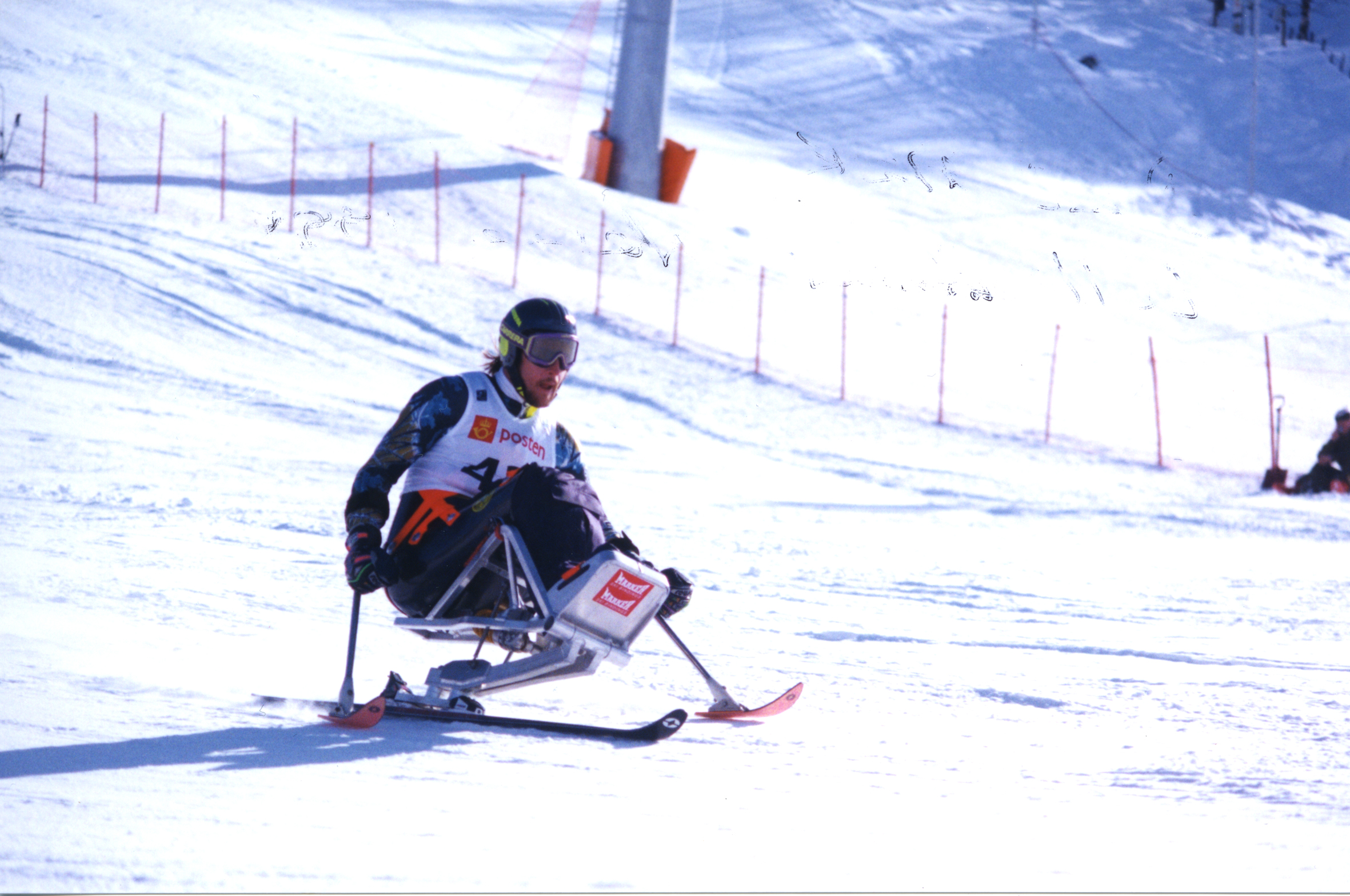 Australian Paralympian David Munk at the 1994 Winter Games in Lillehammer